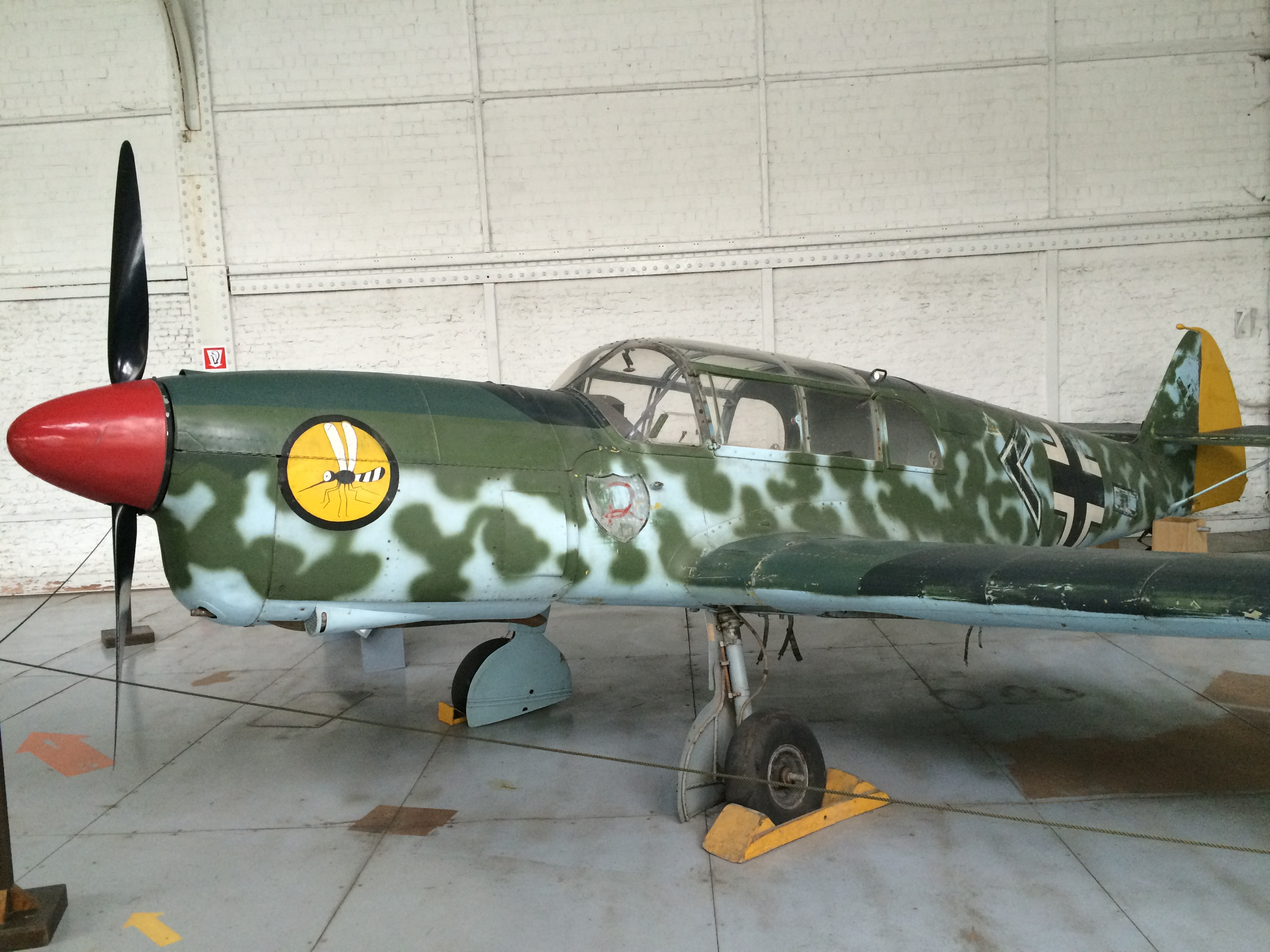 Nord 1002 Pingouin airplane made in France for the German air force during World War II, based on the design of the Messerschmitt Bf 108. Now at the Royal Military Museum, Brussels. This is a file created at the museum: Royal Museum of the Armed Forces and of Military History in Brussels